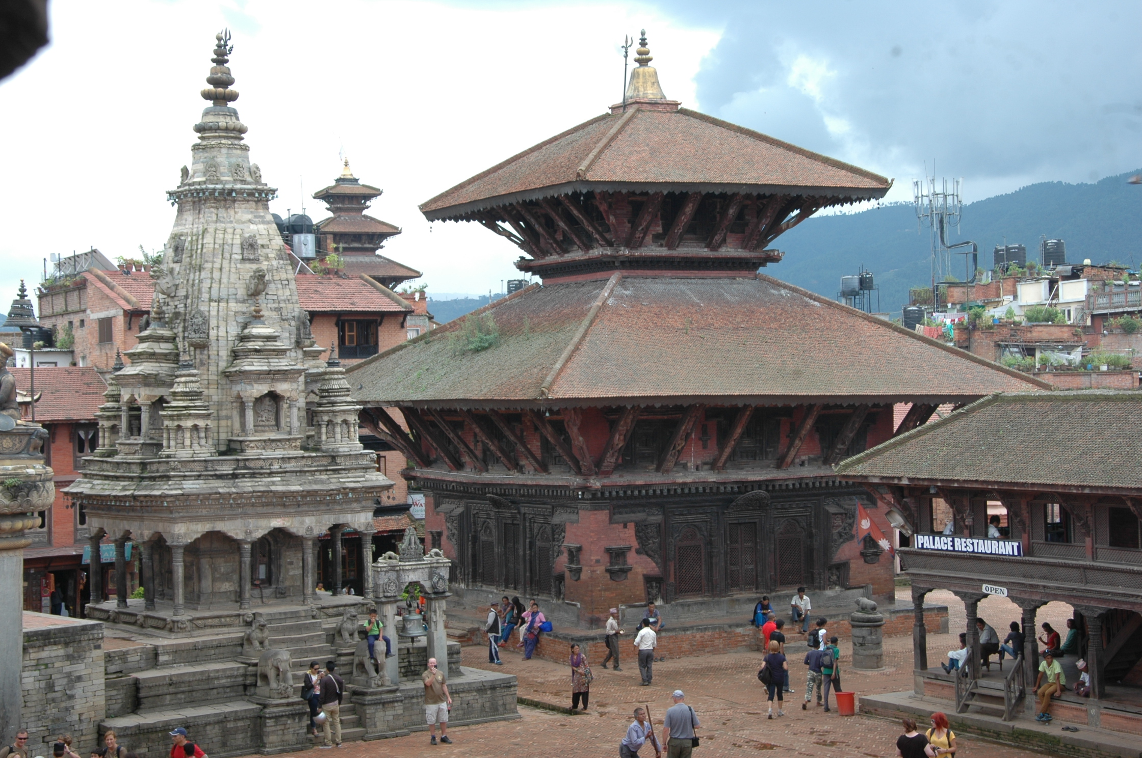 Mahadev Temple